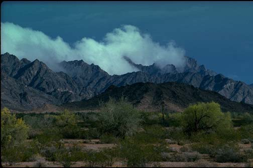 Description : Low clouds on the Mohawk Mountains from Interstate 8 looking south. Filename : yfomohawkmtn.jpg